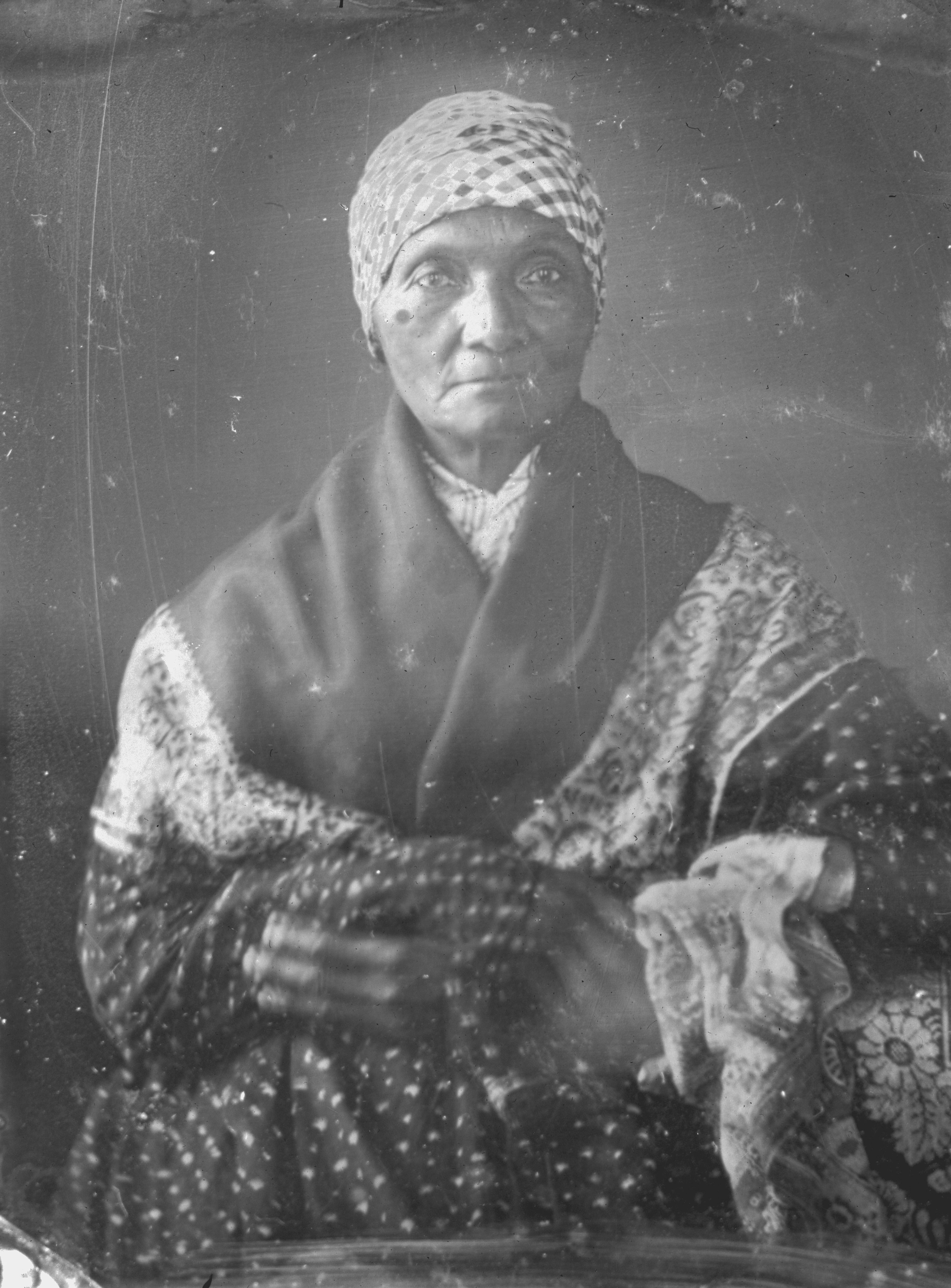 Dorcas Honorable, the last known Indian woman on Nantucket, who died in 1855. Read more about her at Image number: GPN4321